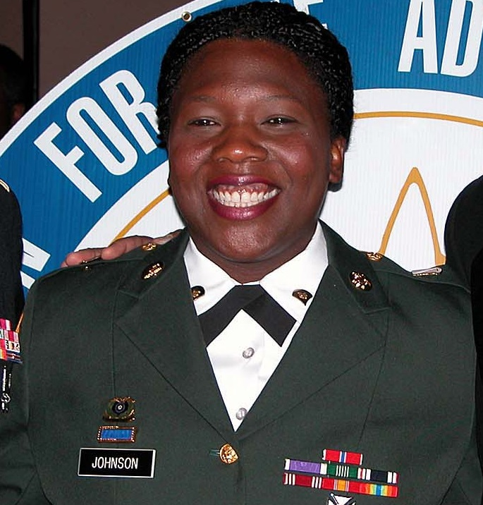 Former Operation Iraqi Freedom POW Spc. Shoshana Johnson at the NAACP's 28th Annual Armed Services and Veterans Affairs Awards Dinner in Miami. Johnson attended the event as a special invited guest.